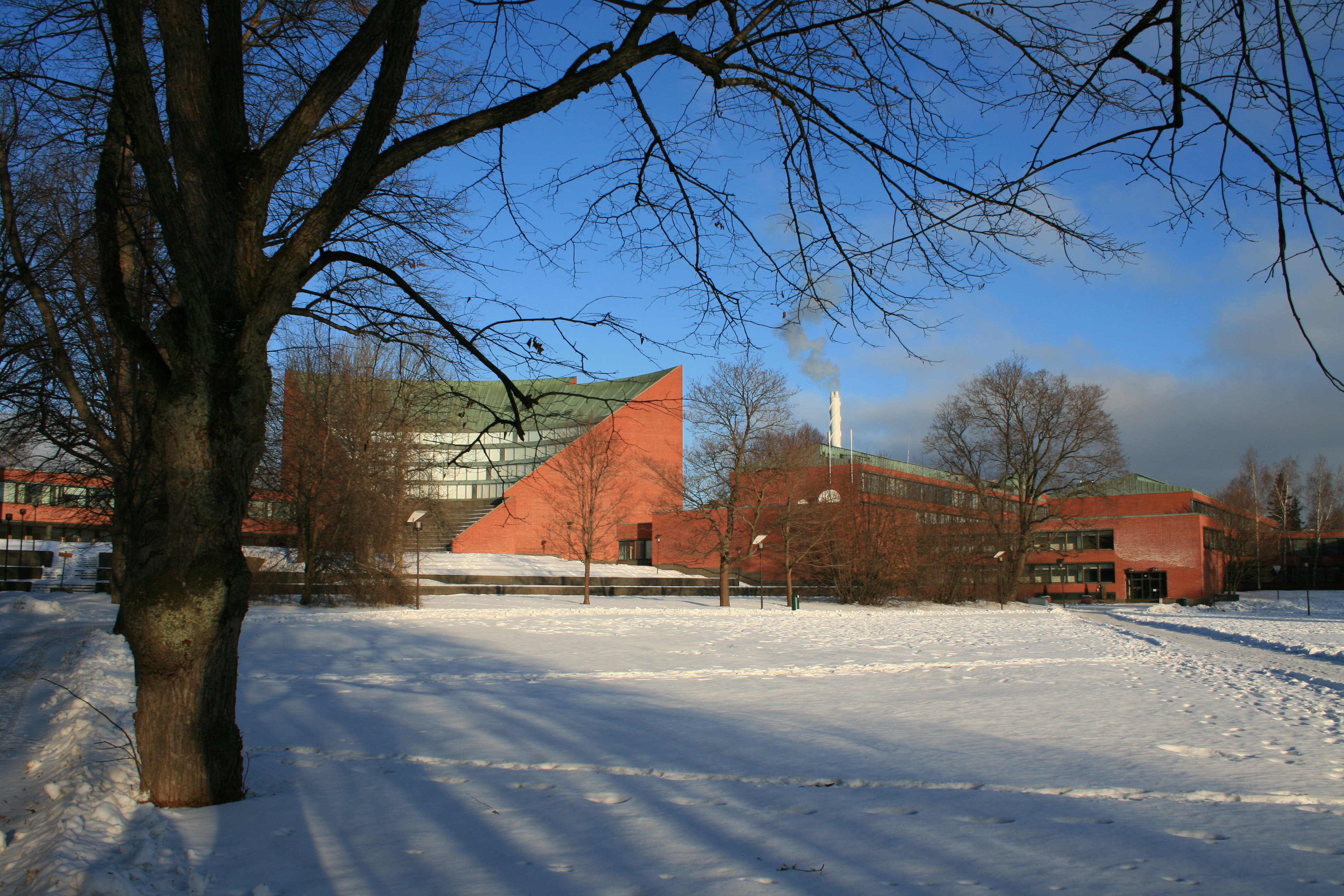 Main Building of Helsinki University of Technology (TKK) in winter.